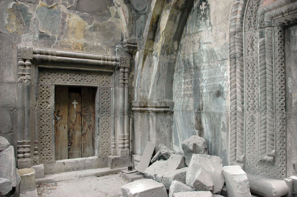 Kobair monastery. Armenia